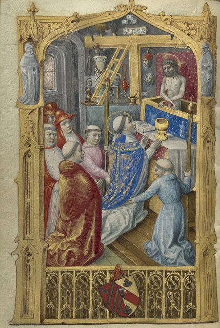 Mass of St Gregory by the Master of Jacques de Besançon, about 1500. Tempera colors, ink and gold on parchment. Leaf, 13.3 x 8.7 cm . The J. Paul Getty Museum, Los Angeles